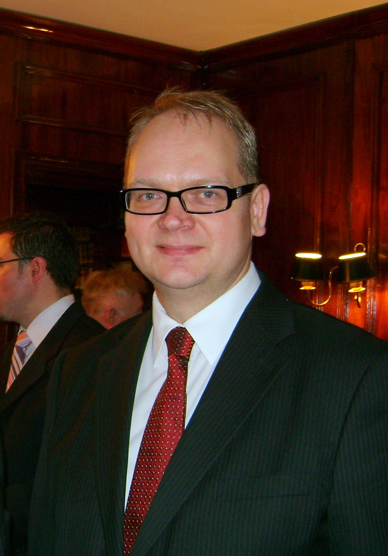 Undersecretary for Legal and Consular Affairs Lauri Bambus in La Paz Bolivia at the opening of Estonian Honorary Consulate